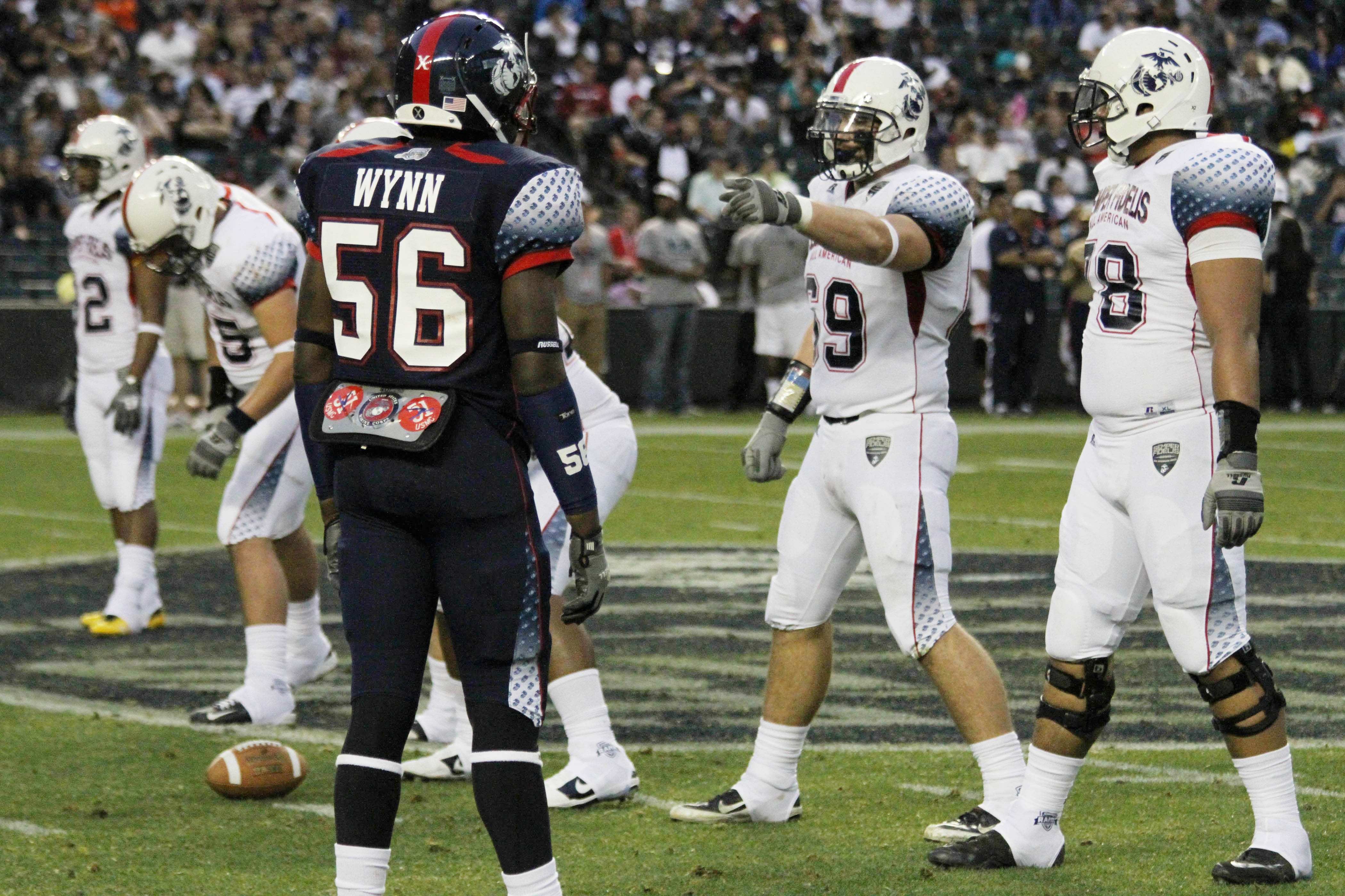 Adam Bisnowaty, an offensive lineman for the West, points to a defender so his teammates acknowledge prior to a play in the Semper Fidelis All-American Bowl Jan. 3. One hundred of the most qualified high school seniors from throughout the country joined at Chase Field, Phoenix, Ariz., to battle in the Semper Fidelis All-American Bowl game Jan. 3. The West fought their way to a 17-14 victory over the East. The Semper Fidelis All-American Bowl is the culmination of a yearlong partnership between Marine Corps Recruiting Command and Junior Rank, an organization dedicated to developing the next generation of student-athletes. Unit: Marine Corps Recruiting Command DVIDS Tags: High School; New Jersey; United States Marine Corps; public affairs; Ariz.; Marine Corps; Phoenix; Napoleon; SEMPER FI; always faithful; Phoenix Arizona; Semper Fi Bowl; Semper Fidelis All-American Bowl; Marketing and Public Affairs; Brandon Napoleo; Justin Combs; Adam Bisnowaty